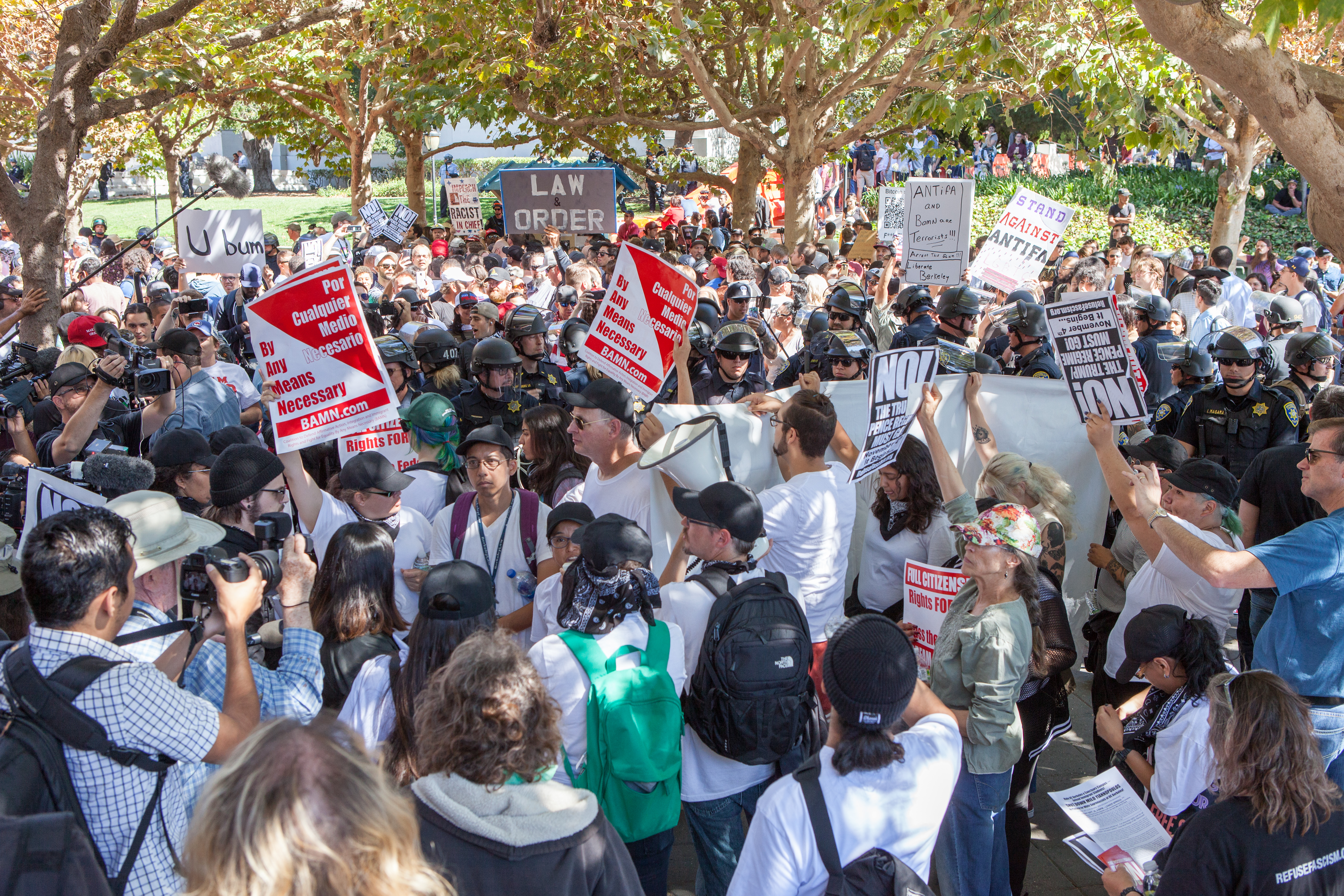 Protesters and supporters of Donald Trump and Milo Yiannopoulos and police wearing riot helmets fill Sproul Plaza at UC Berkeley.